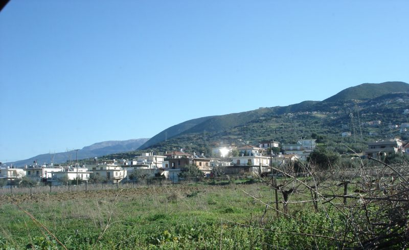 Kalithea Greece